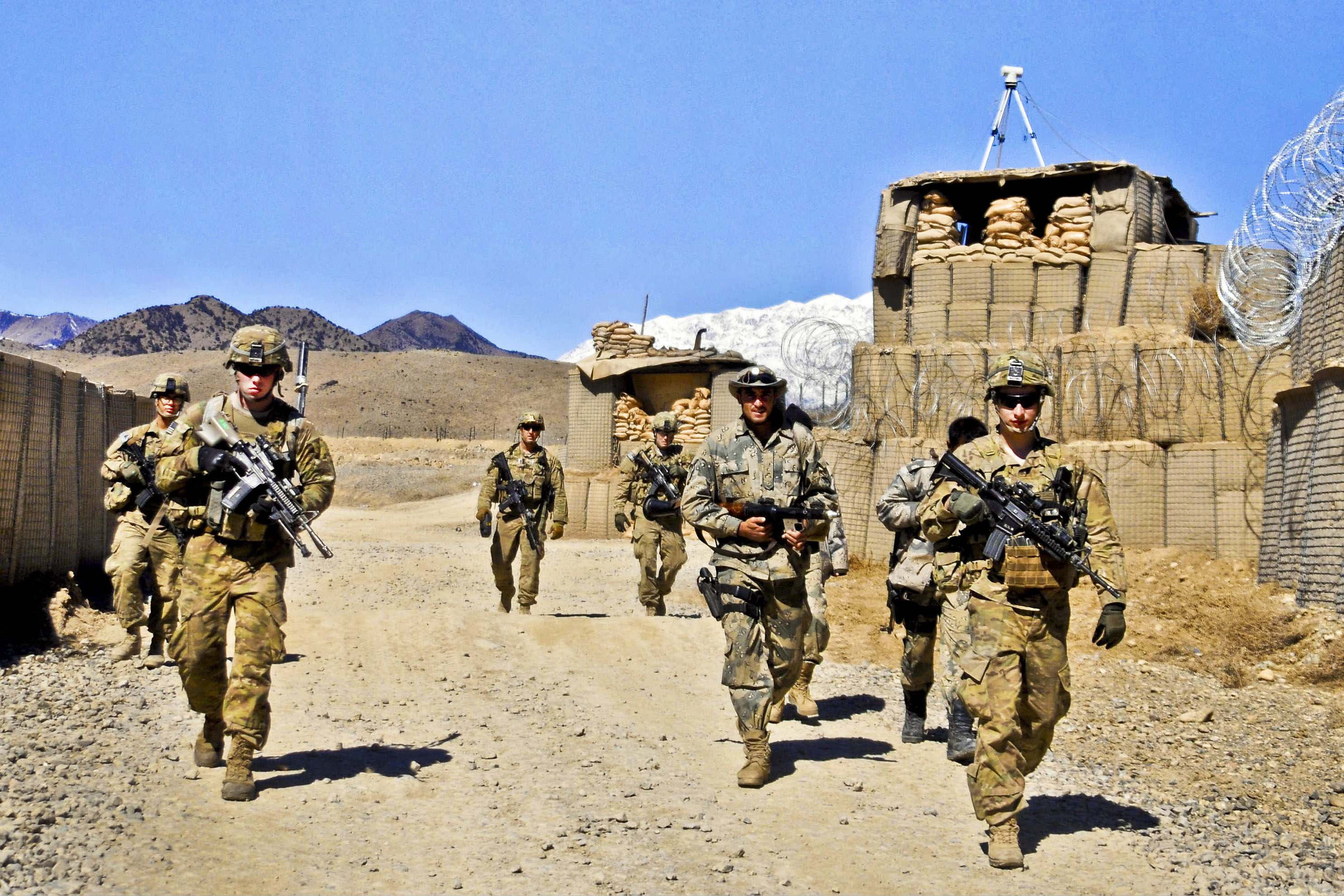 U.S. Army soldiers prepare to conduct security checks near the Pakistan border at Combat Outpost Dand Patan in Afghanistan's Paktya province on Feb. 29, 2012. The soldiers are paratroopers assigned to Company A, 3rd Battalion, 509th Infantry Regiment.